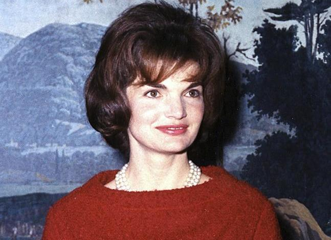 Mrs. Kennedy in the Diplomatic Reception Room, 05 December 1961 White House, Diplomatic Reception Room